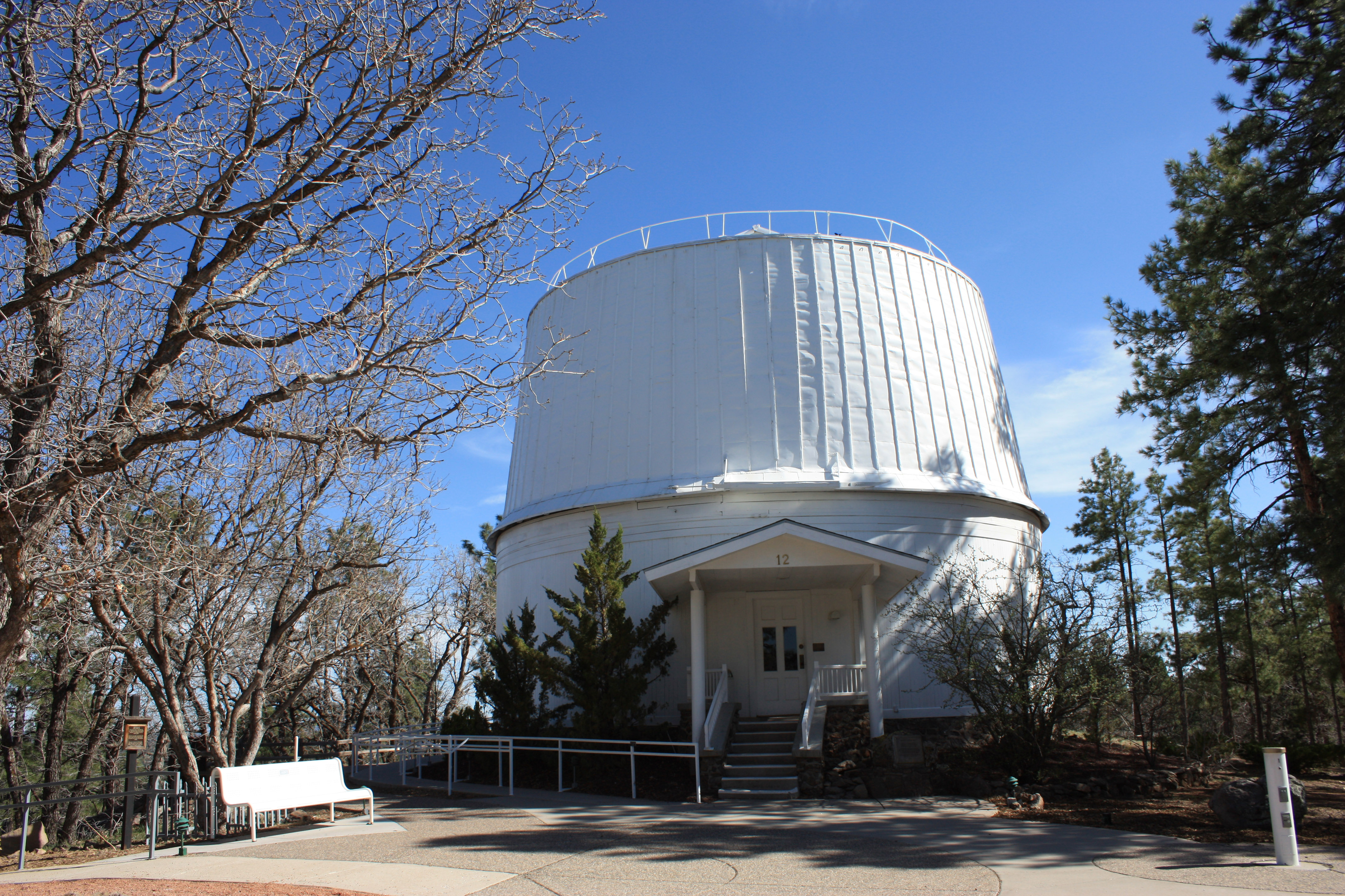 The Alvan Clark Dome at Lowell Observatory in Flagstaff, Arizona